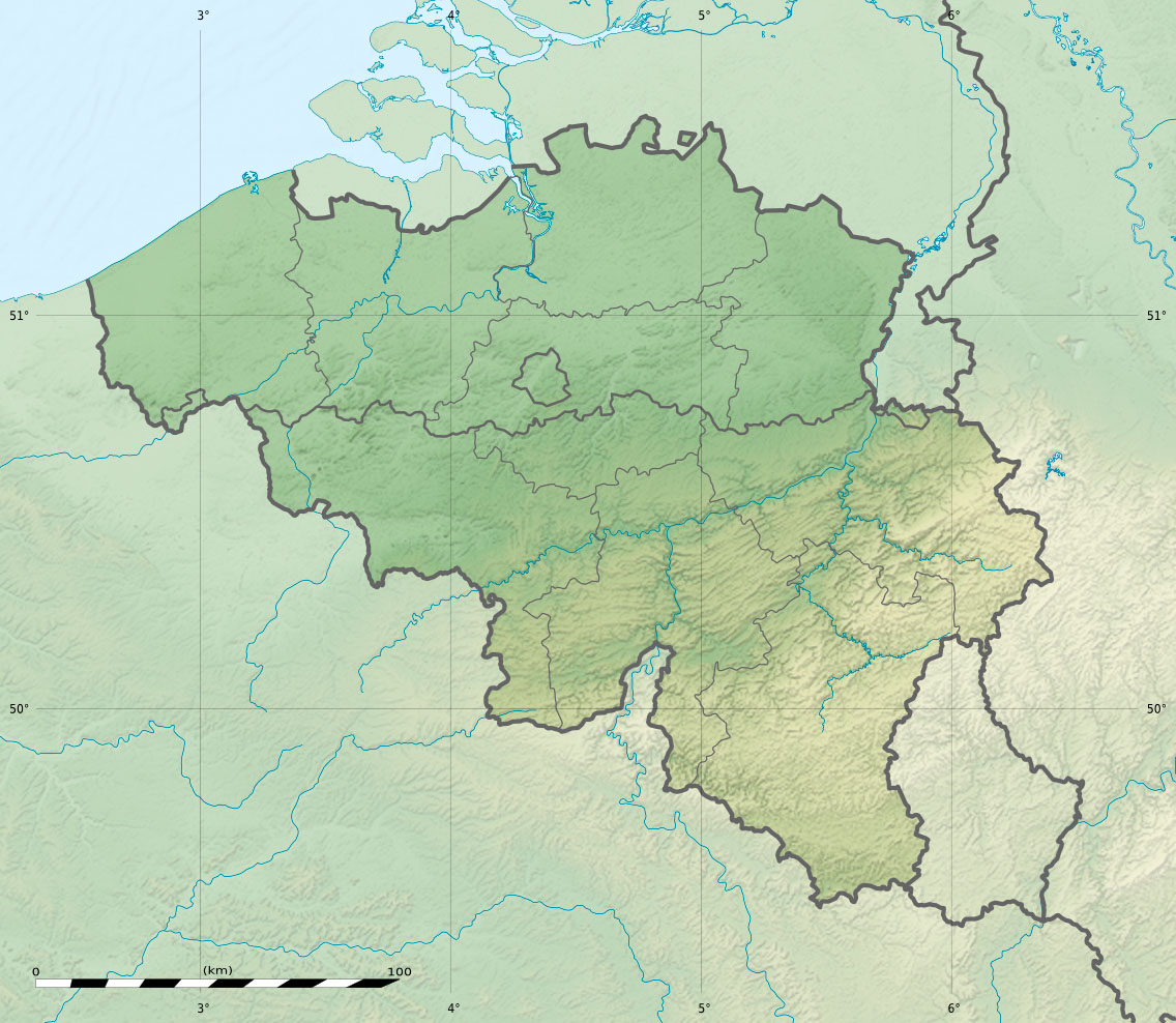 Physical location map of Belgium, for geo-location purposes.